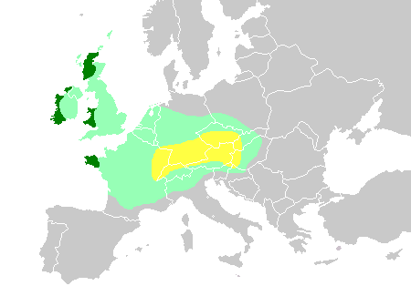 edited version of File:Celts in Europe.png, with Iberia for some reason blanked by User:Jacky Brown 115